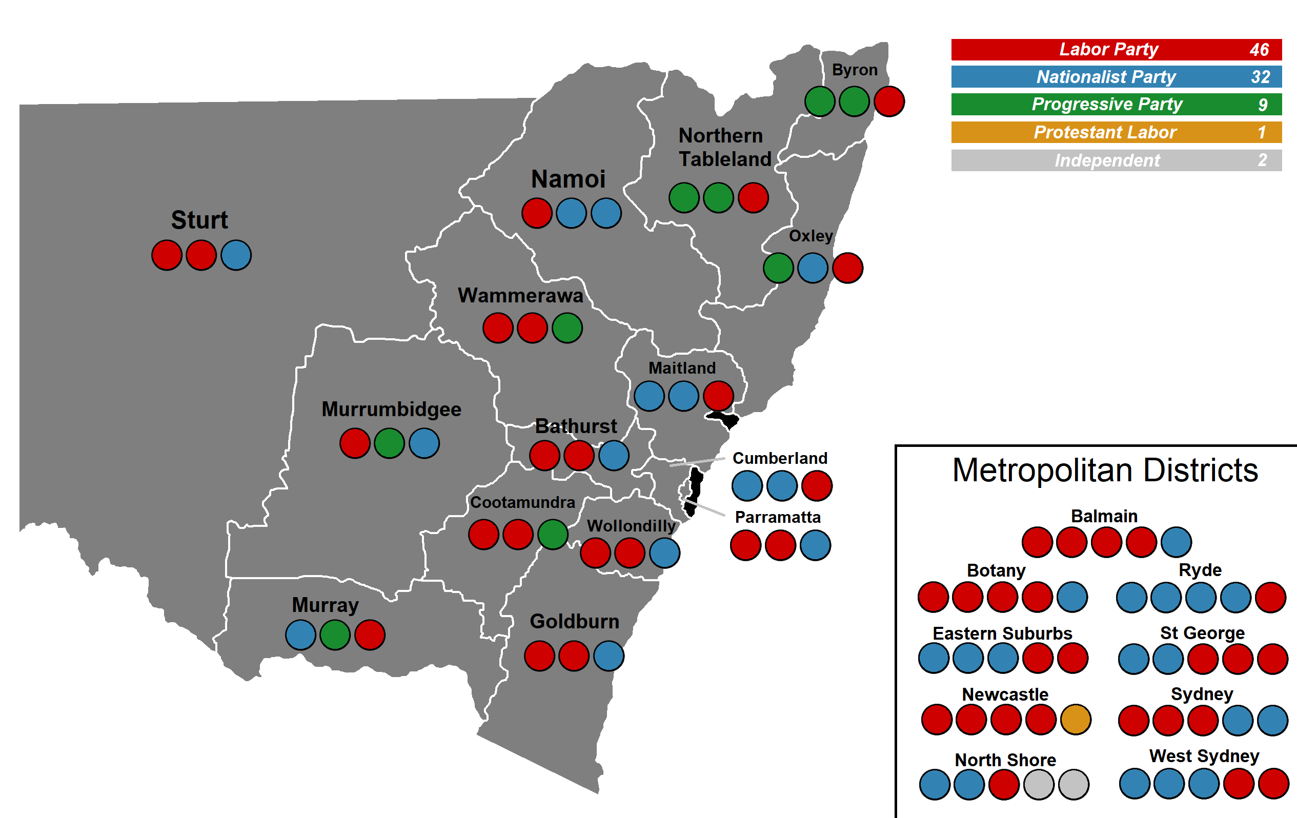 Electoral Map of the 1925 NSW Election